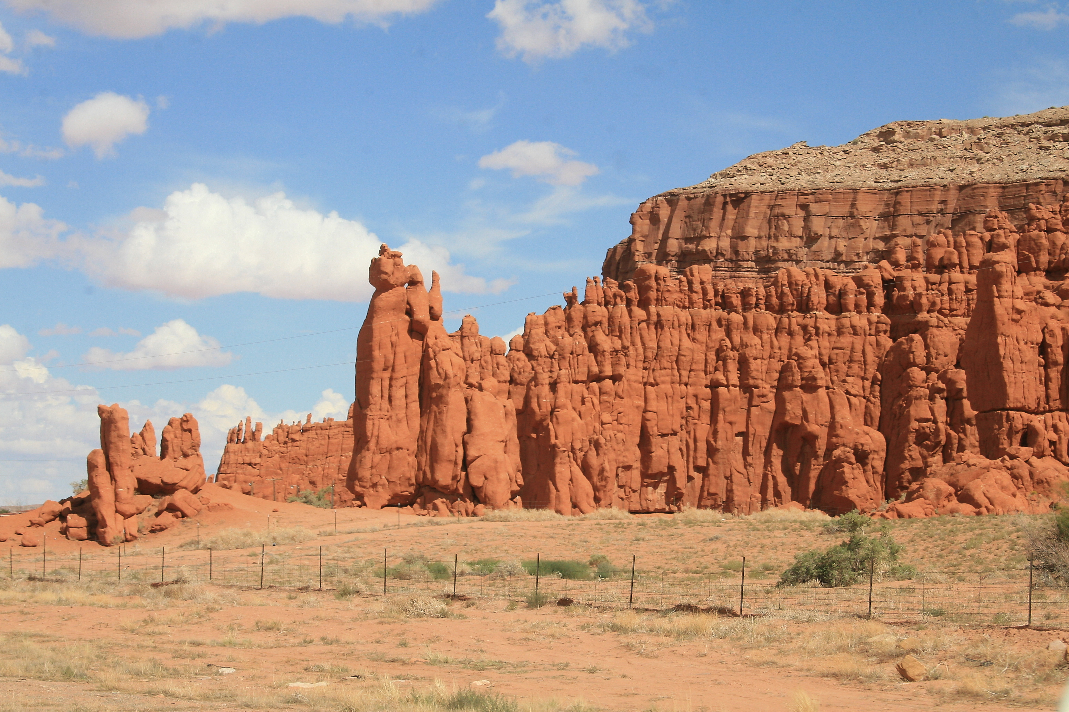 Baby Rocks cliffs, as seen from the U.S. Route 160, looking south-east, in Navajo County, Arizona.